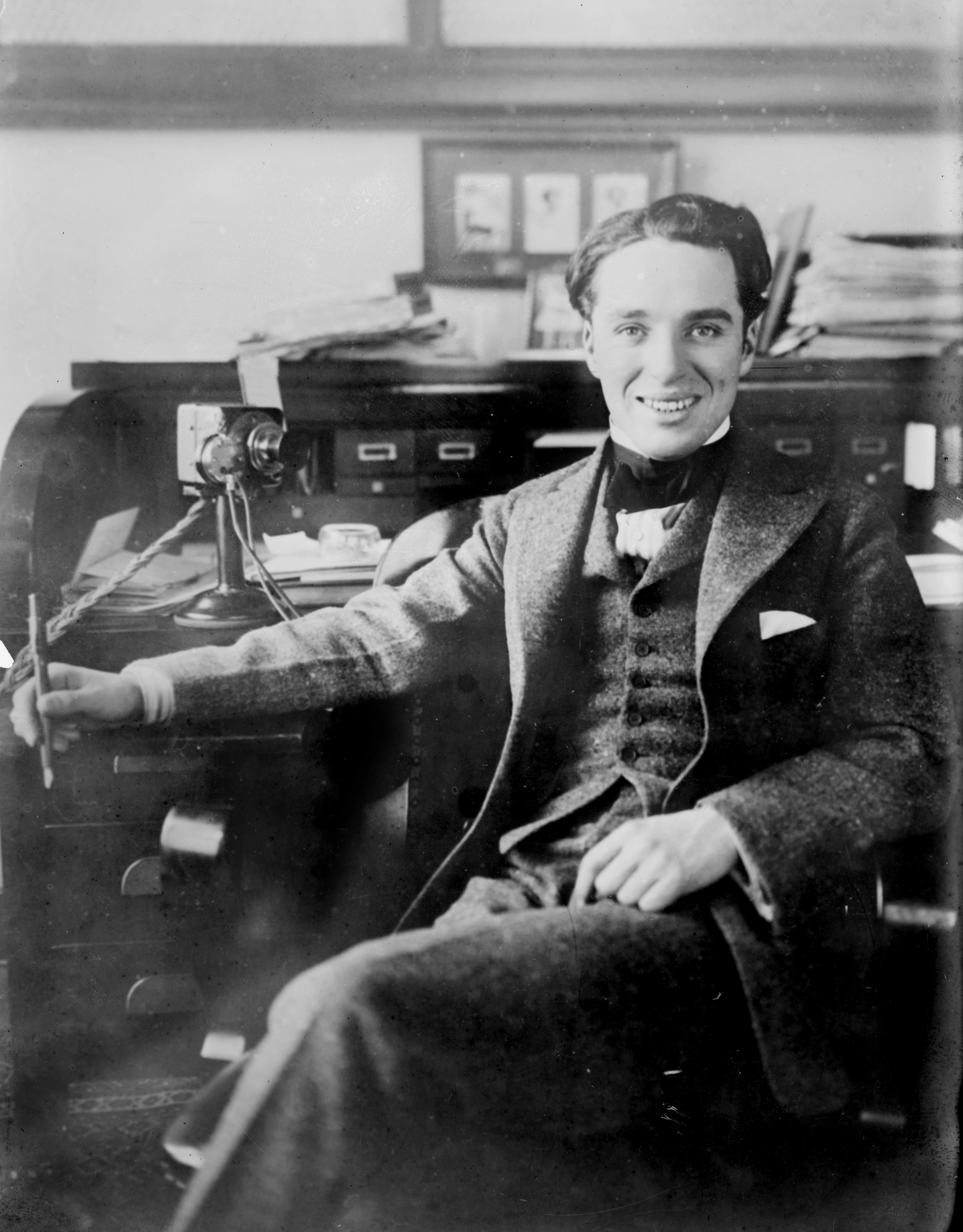 "Chas. Chaplin". Actor Charlie Chaplin seated at desk.